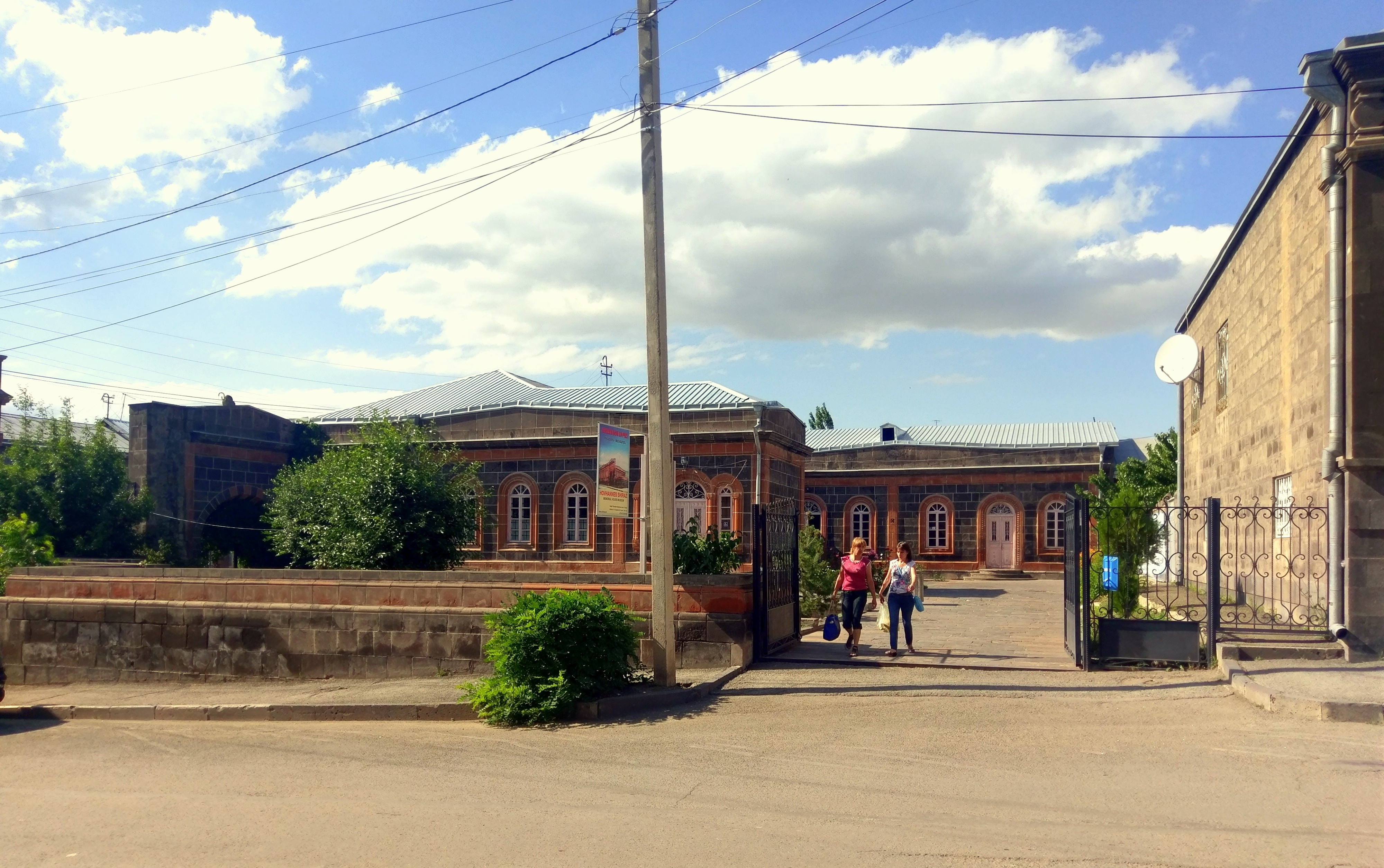 House-Museum of Hovhannes Shiraz, Gyumri, Armenia.